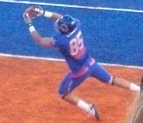 Boise State TE Tommy Gallarda catching Boise State's first TD against Oregon State during their game on September 25, 2010 at Bronco Stadium in Boise, Idaho.